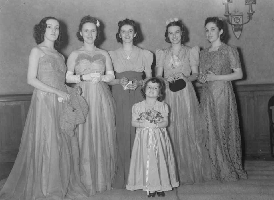 We see a group of girls who participated in a fashion show organized by the Women's Section of the Association of historical travel, Knights of Columbus Hall of the Mountain Street in Montreal. We note, among other things, wearing a party dress, Yvette Brind'Amour.